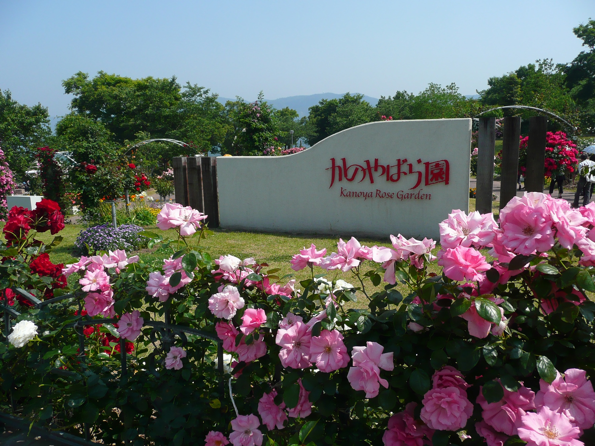 Kanoya Rose Garden (Kanoya City, Kagoshima, Japan)